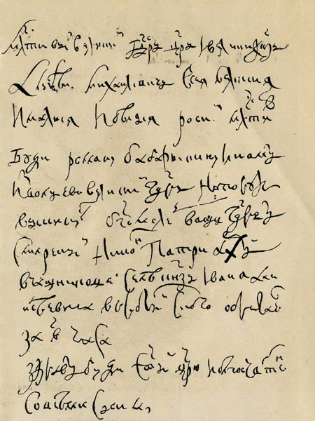 The letter of patriarch Nikon to tsar Alexey Mihajlovich, 1669